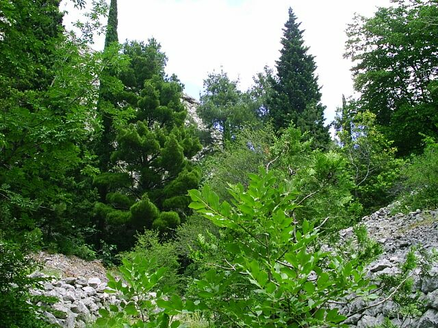 Velebit Mountains, Croatia